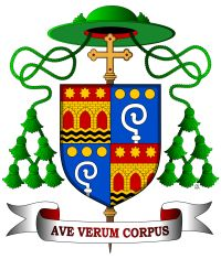 Coat of arms of Eduarda Kojnoka Bishop of Rožňava